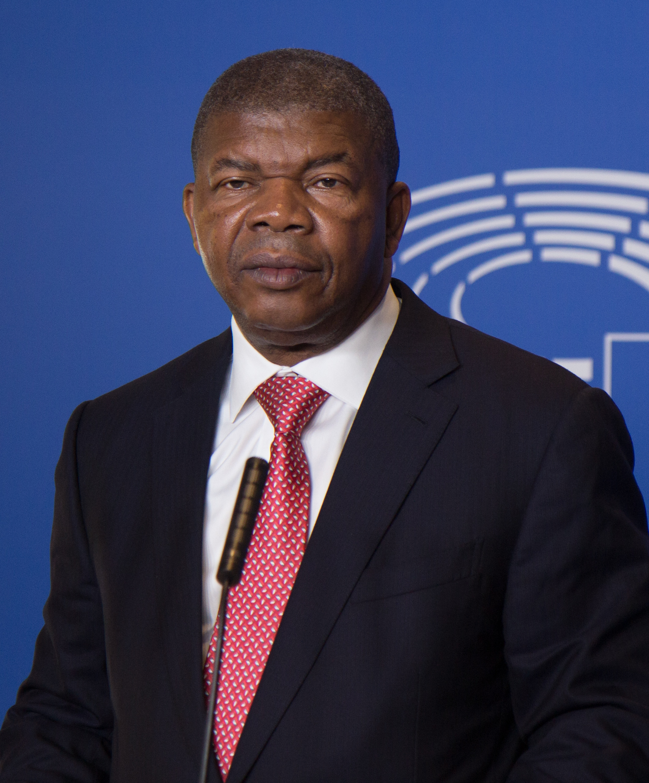 João Manuel Gonçalves Lourenço (President of Angola) at the European Parliament in Strasbourg.